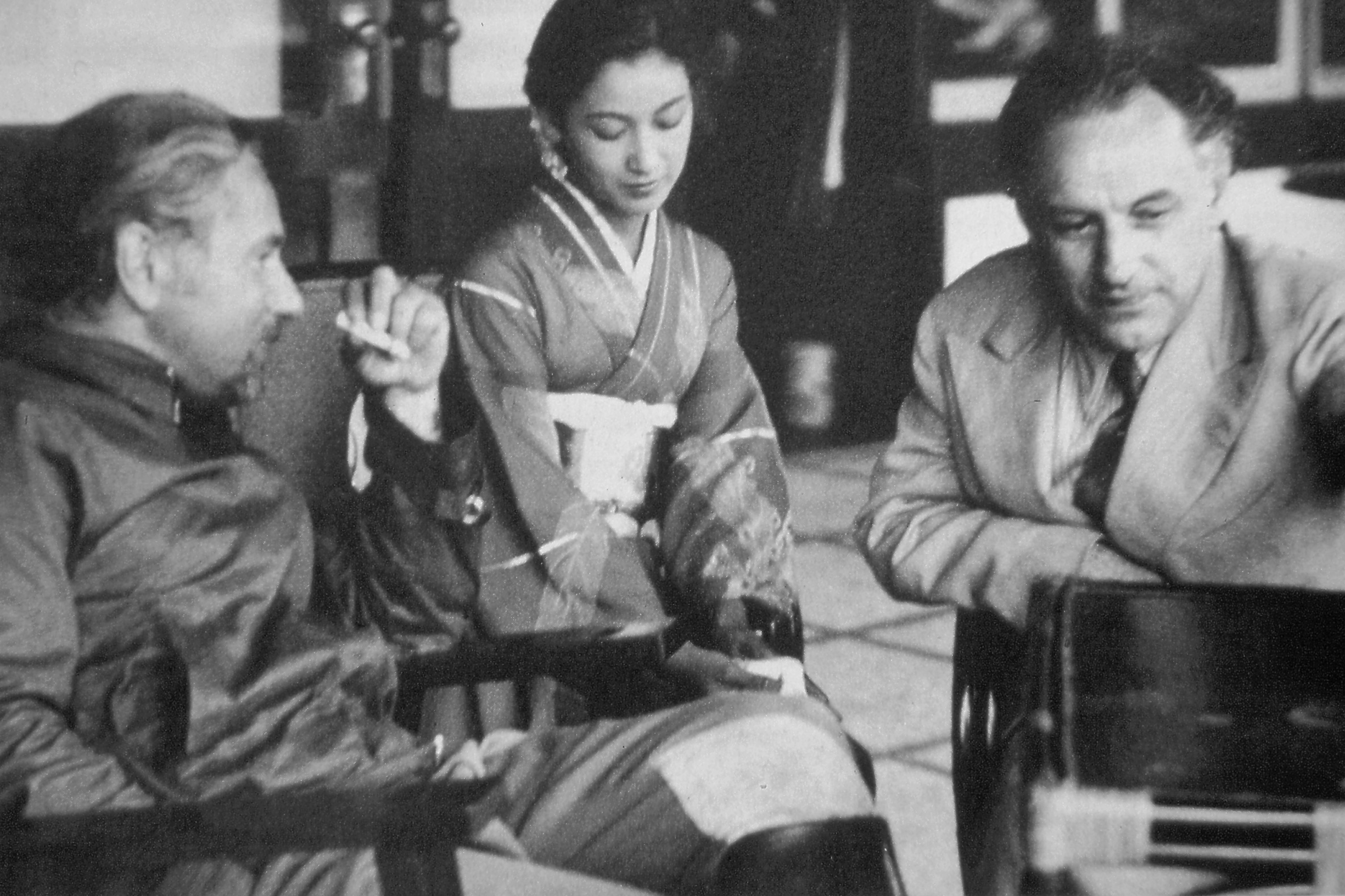 The Austrian-American film director Josef von Sternberg (1894–1969), the Japanese actress Setsuko Hara (原 節子, 1920–2015) and the German film director Arnold Fanck (1889–1974) on the occasion of the filming of The Daughter of the Samurai (新しき土) in 1936 in Japan.